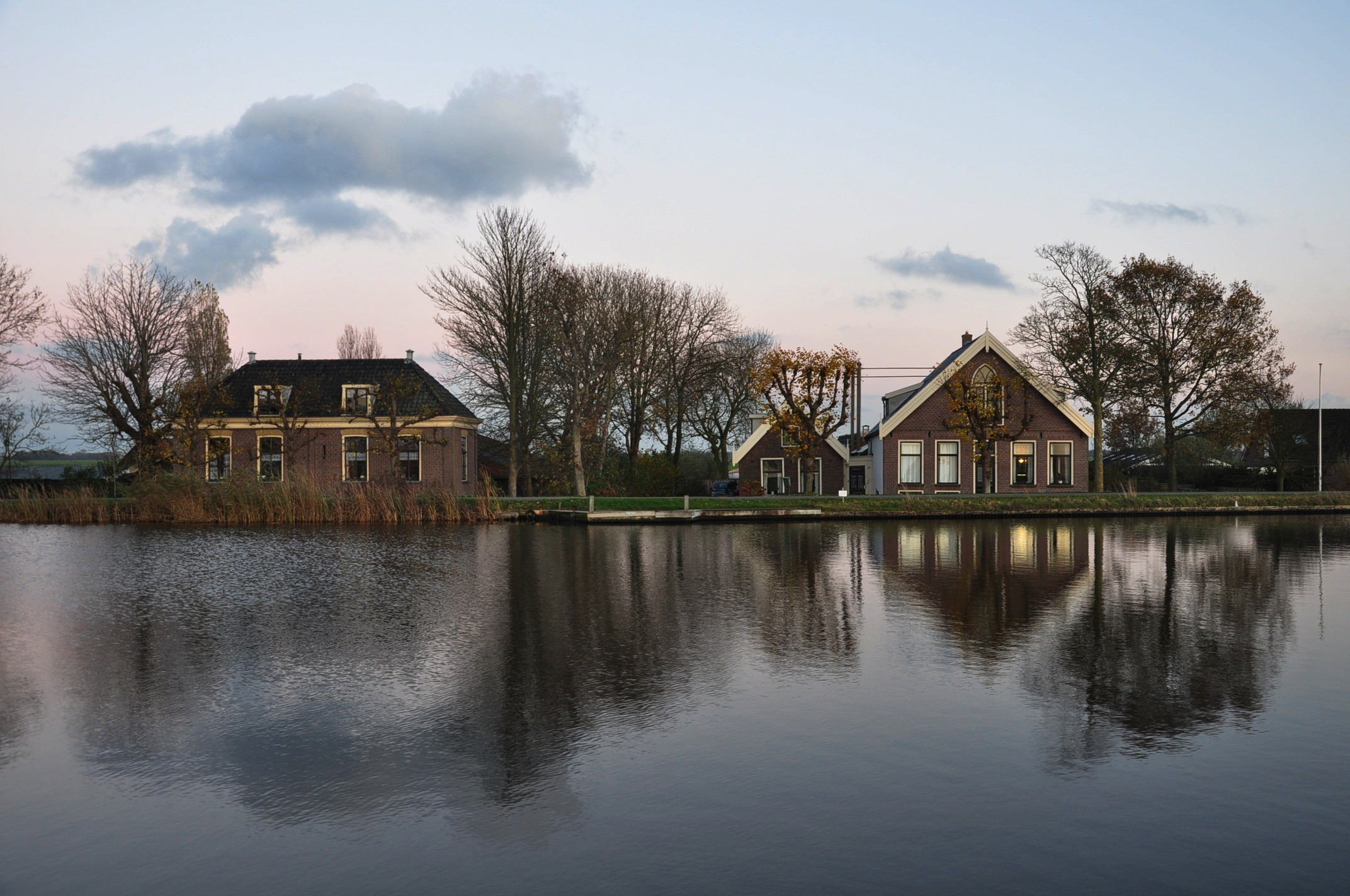 Farmhouses in the Rondehoep Polder, on the shore of the Amstel river (municipality Ouder-Amstel, Province North Holland, Netherlands). Picture taken 11 km south of downtown Amsterdam.